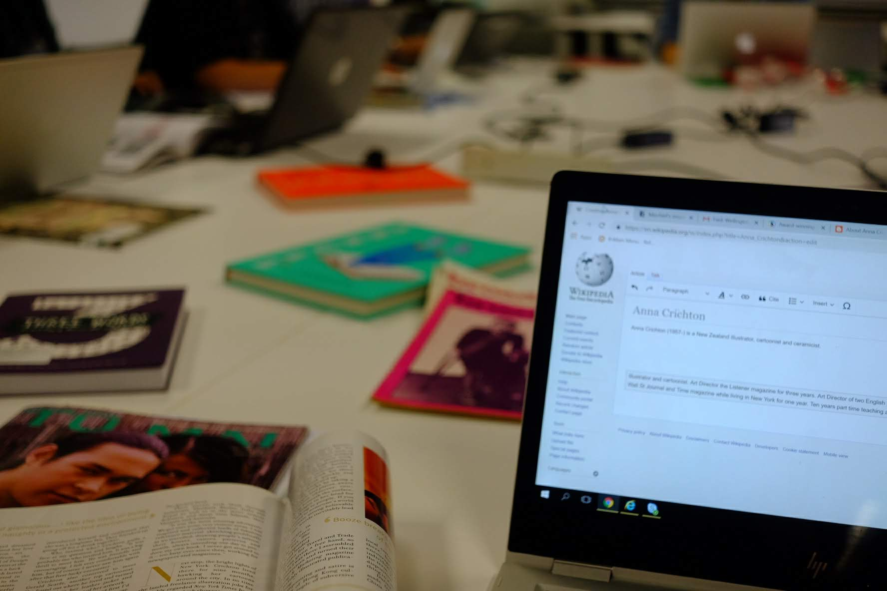 Wikpedia cartoons and comics edit-a-thon at the National Library of New Zealand. This event was held on 23 March 2019, focusing on women cartoonists and comics artists featured in the Three Words anthology.